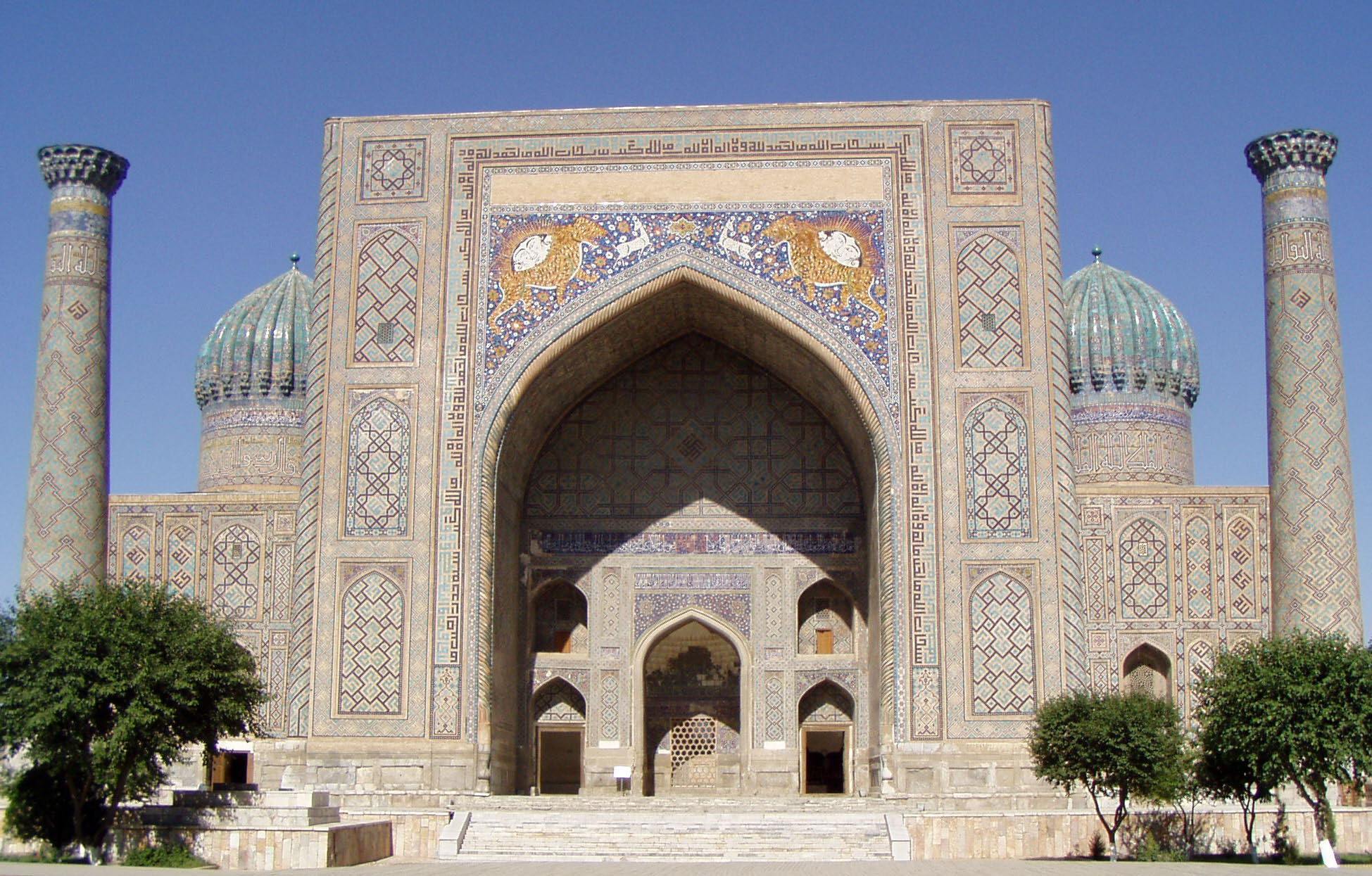 Medrese "Sherdor" in Samarkand (17th century)